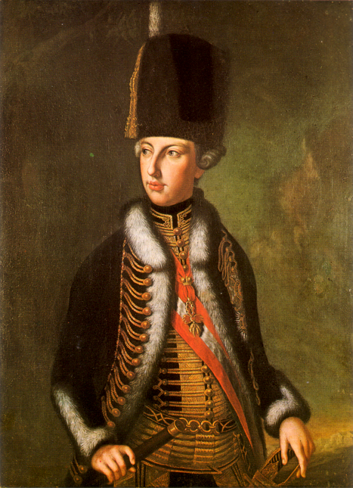 Portrait of Joseph II, Holy Roman Emperor (1765-1790)